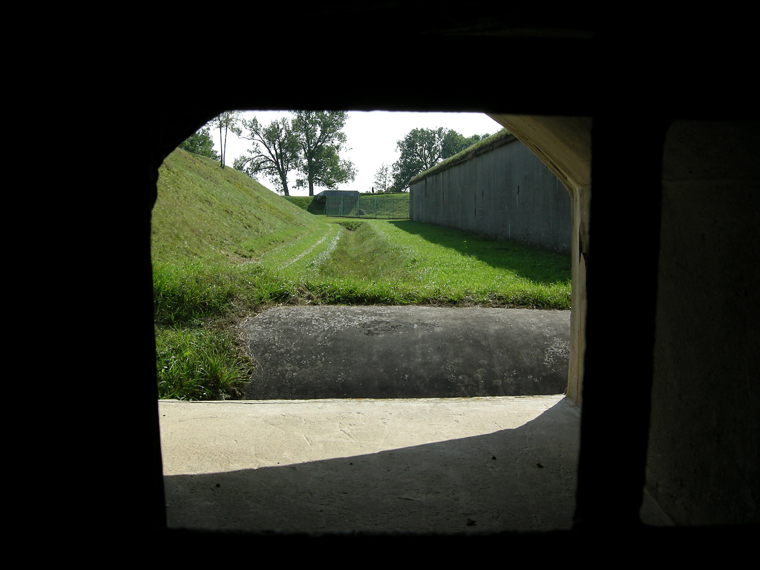 Shooting embrasure for cannon in Ninth Fort, part of the Kaunas Fortress.